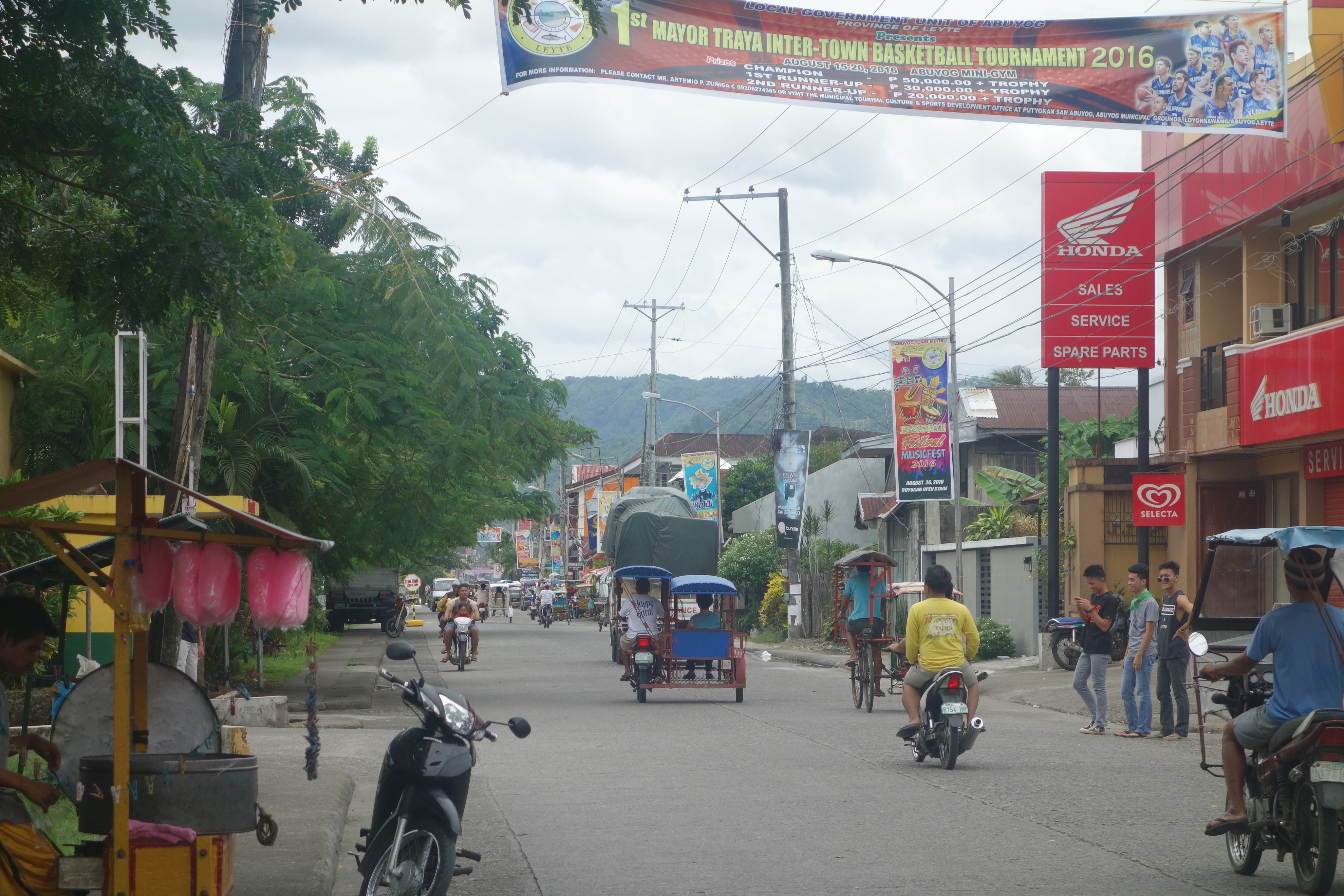 Real Street, Abuyog, PH